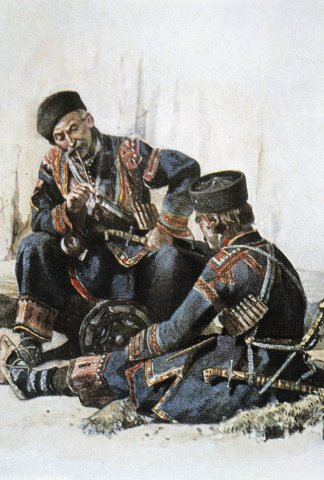 Max Tilke, "Khevsurs", 1910